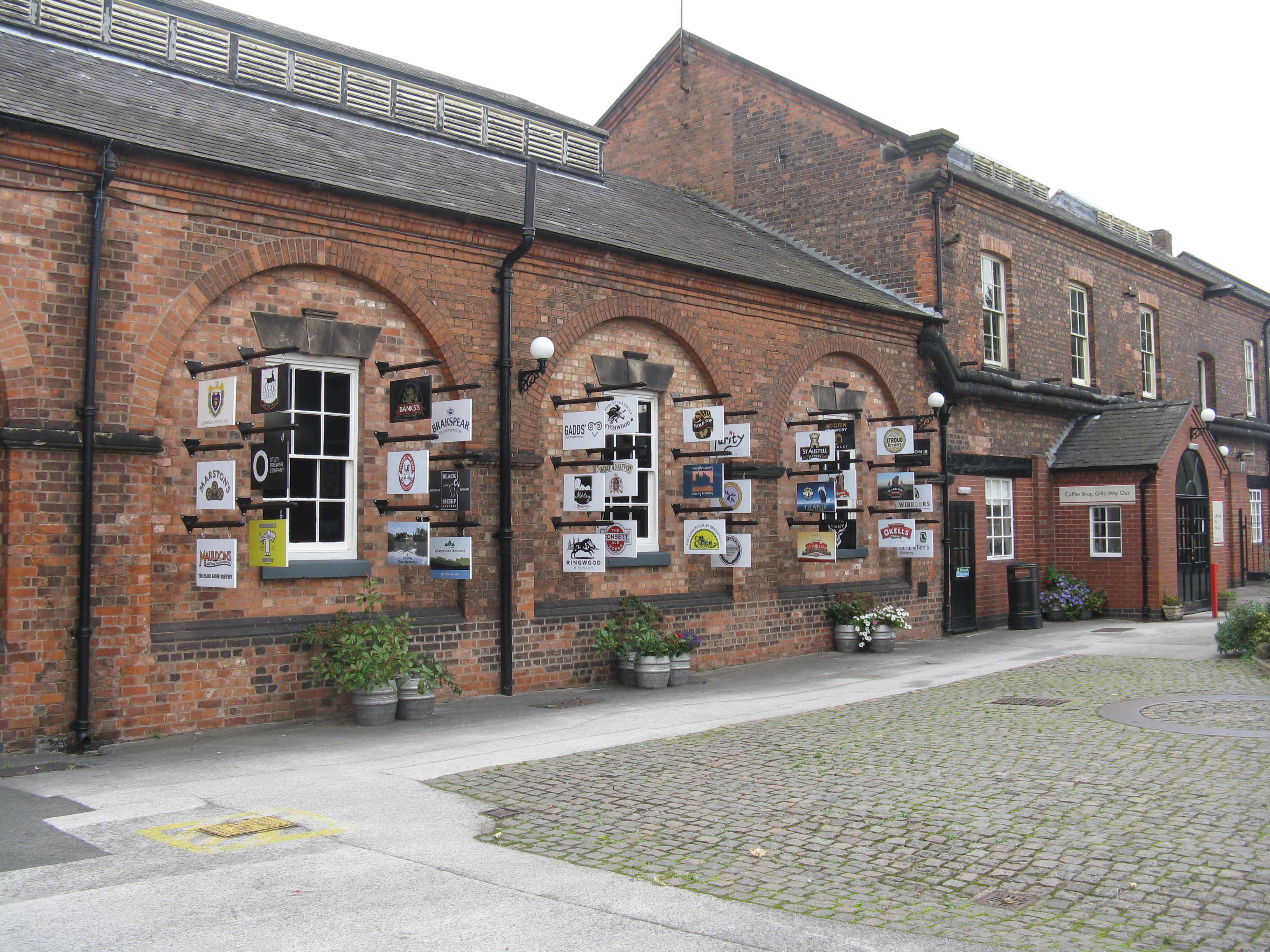 Brewer's signs at the National Brewery Centre: OS grid SK2423, about 1 km from Winshill, Staffordshire, Great Britain.